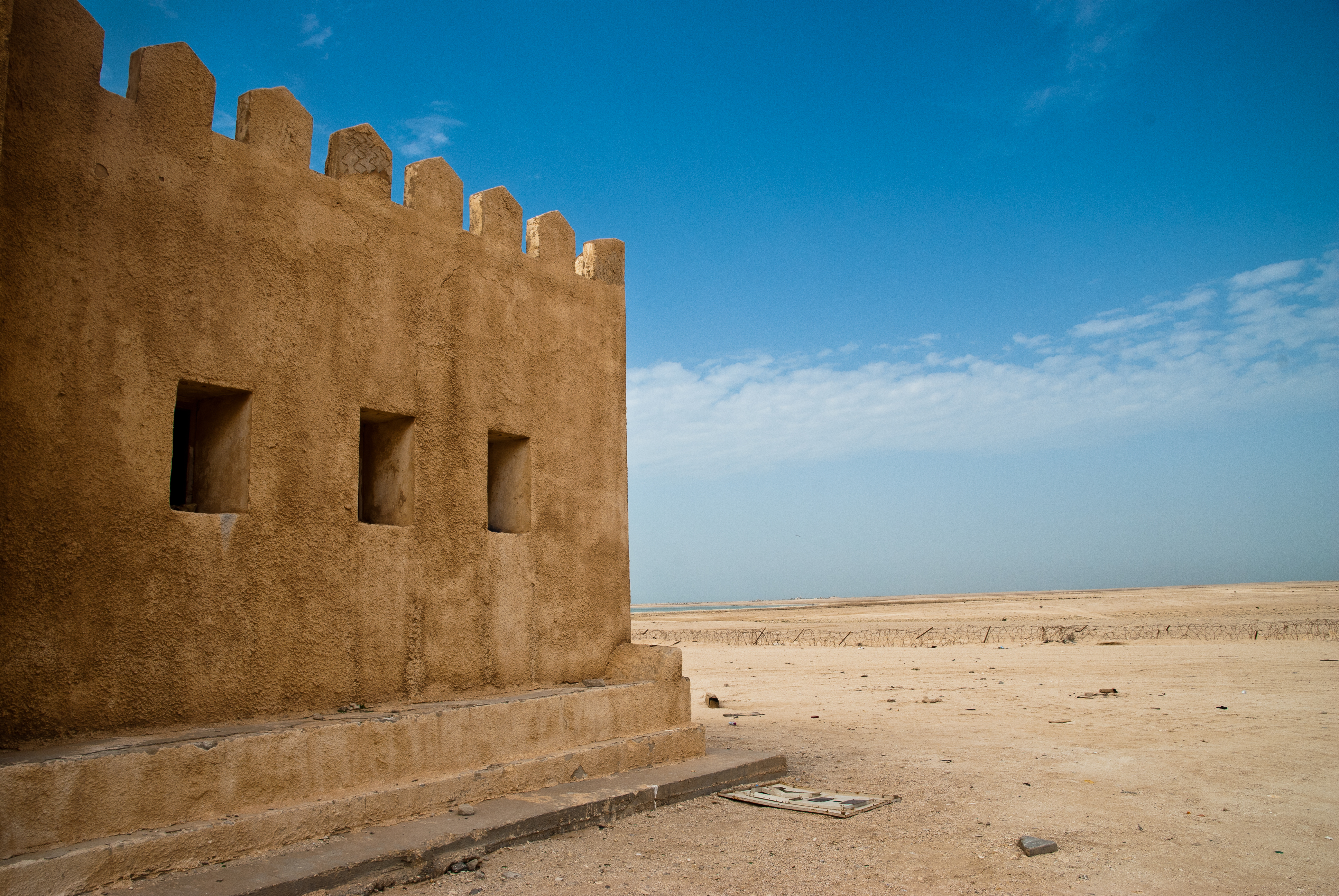 View of the flat, rocky desert behind Qala'at Umm Al Maa in Al Khor Municipality, northwest Qatar.